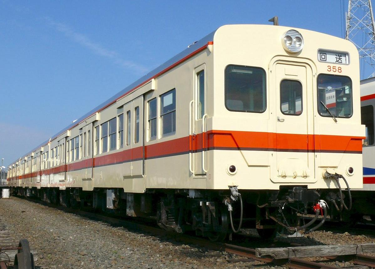 Kanto Railway Joso Line KiHa 350 DMU number KiHa 358 at Mitsukaido Depot, 3 November 2007